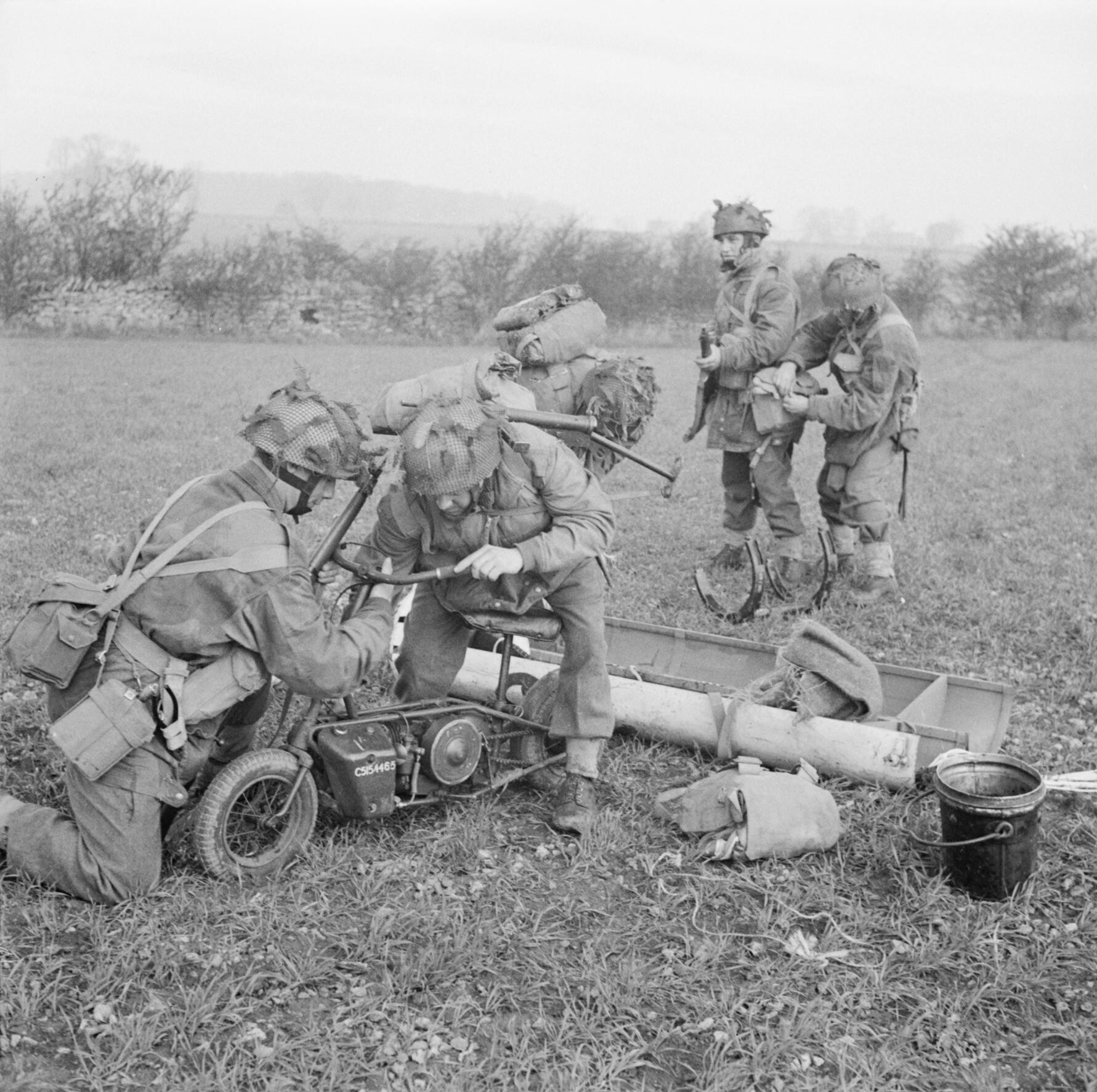 The British Army in the United Kingdom 1939-45 Paratroopers retrieve a Welbike (lightweight folding motorcycle) from an equipment container on the drop-zone, during a large-scale airborne forces exercise, 22 April 1944.